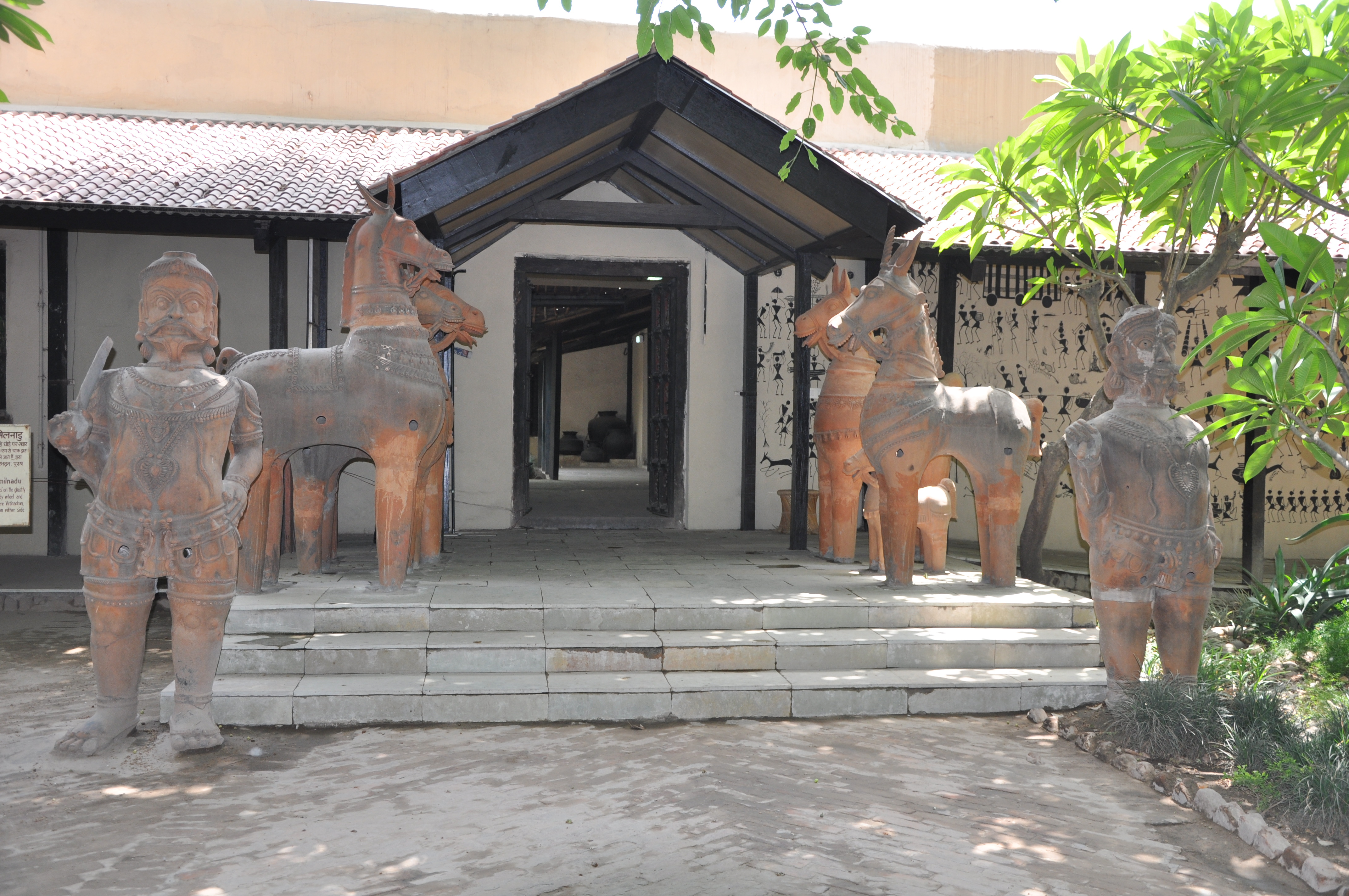 One of the entrance doors to the Crafts Museum, New Delhi